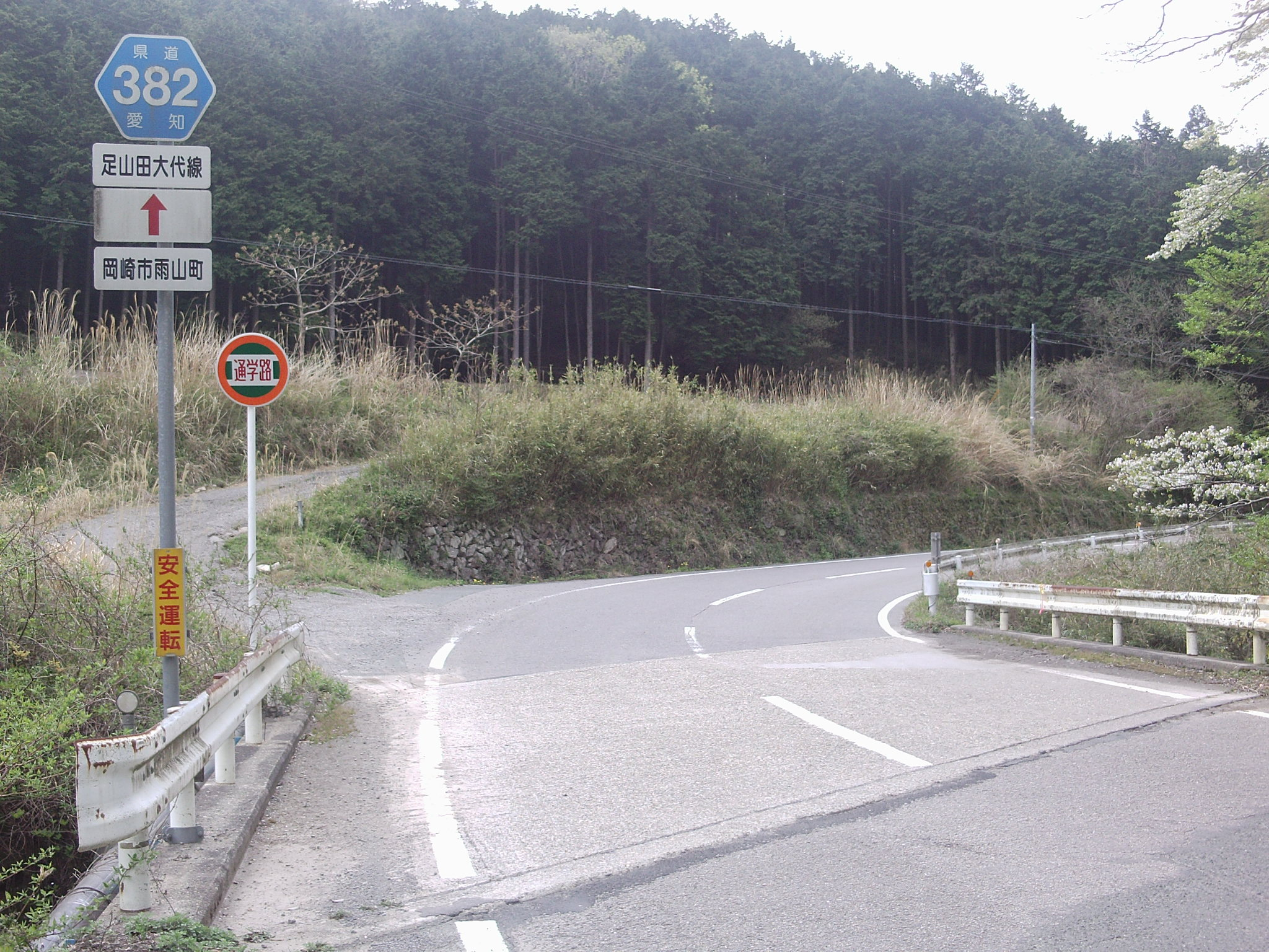 Aichi prefectural road No.382 in Ameyamacho, Okazaki, Aichi.